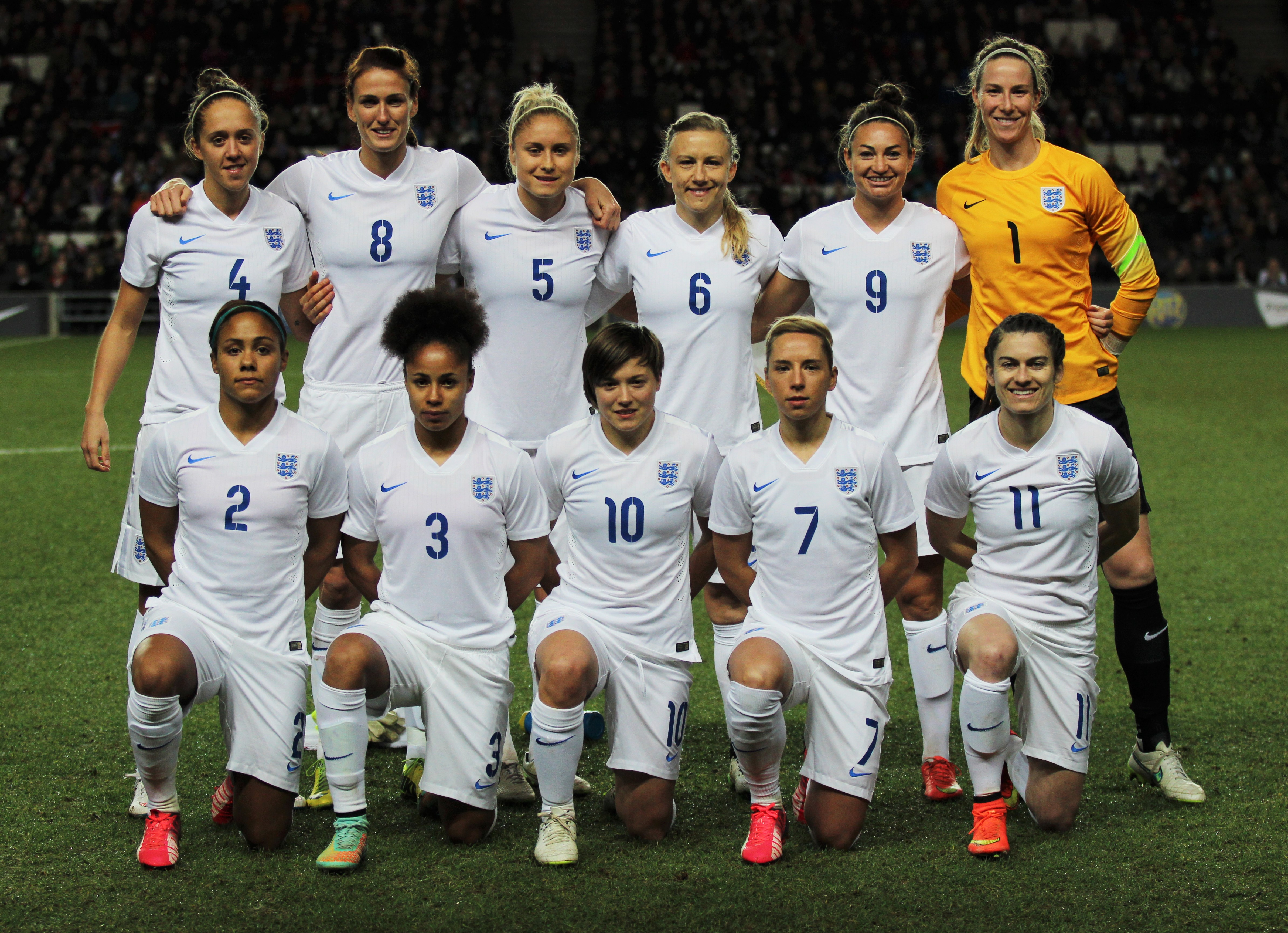 England Women's before the international friendly against USA.